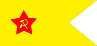 Soviet naval jack for Dobroflot ships, 1920s.